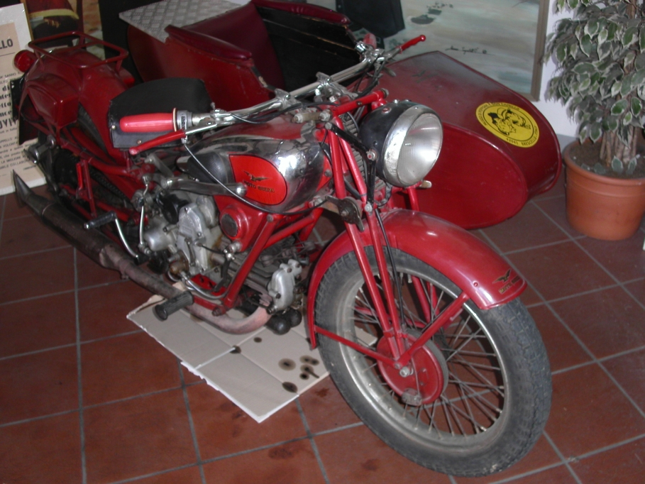 The Moto Guzzi Alce motorbike of Peppone